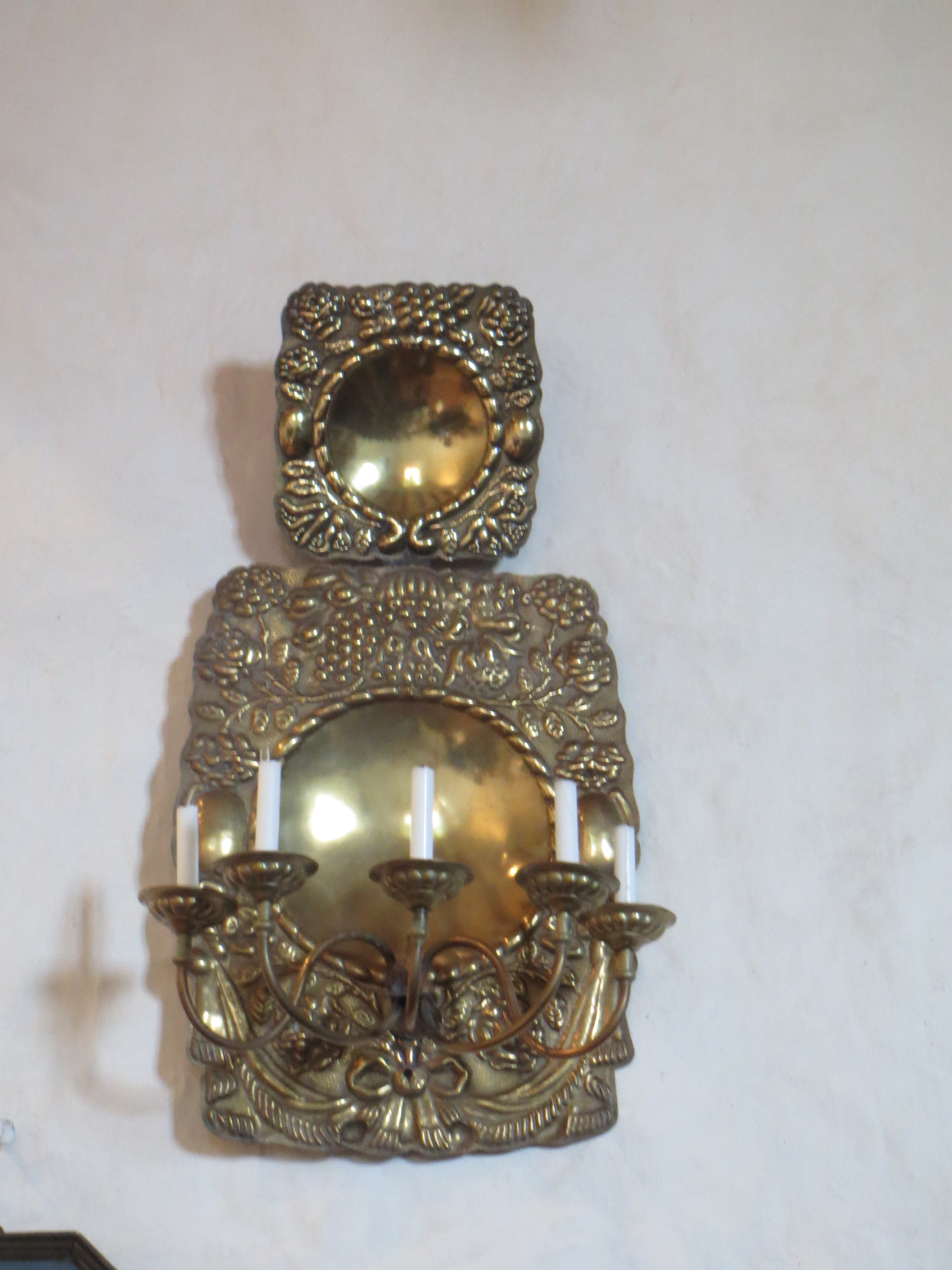 Church in Groß Bünzow